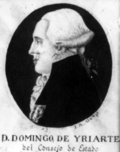 Portrait of Domingo de Iriarte y Nieves Ravelo (1739-1795), Spanish diplomat